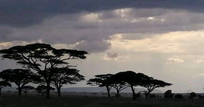 This is an image with the theme "Africa on the Move or Transport" from: Uganda